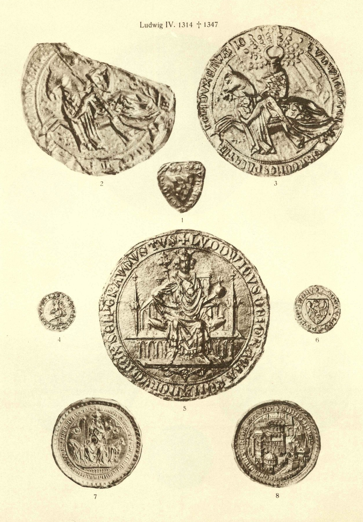 This is a scan of the historical document